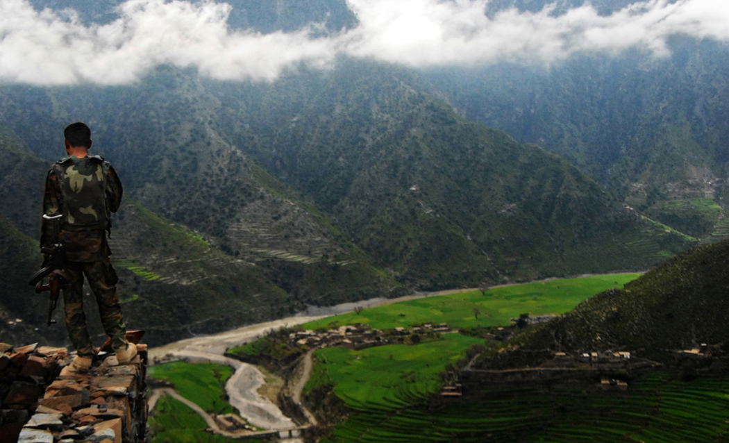 An Afghan national army soldier from the 6th Kandak looks out over a remote river valley from an Afghan national police outpost in Konar province, Afghanistan, March 19. Alliance forces have been mentoring ANA and ANP members on military and civil operations to help quell violent extremists in the region. (Photo ID: 160905